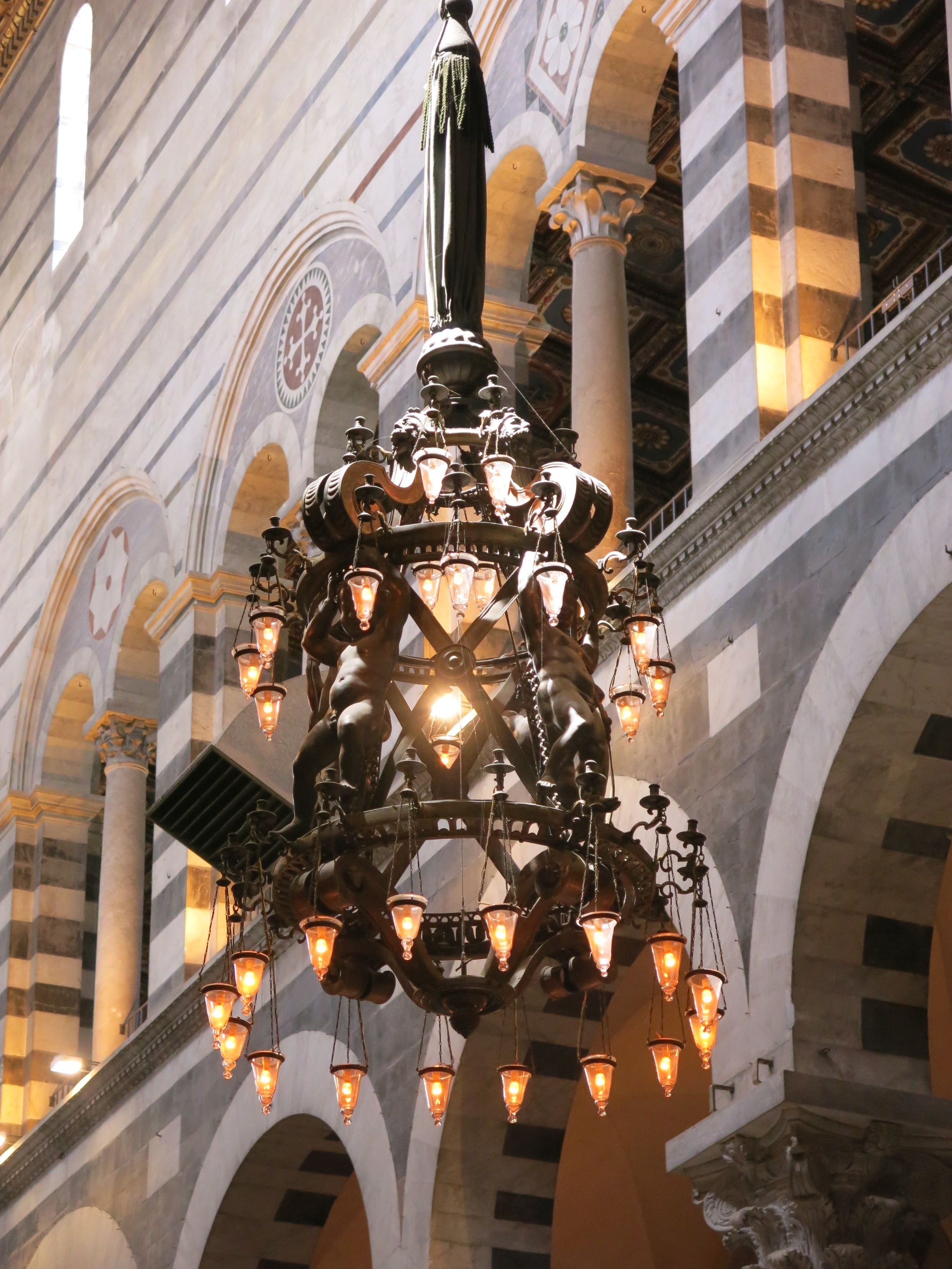 Galileo lamp in the Pisa cathedral (Tuscany, Italy).